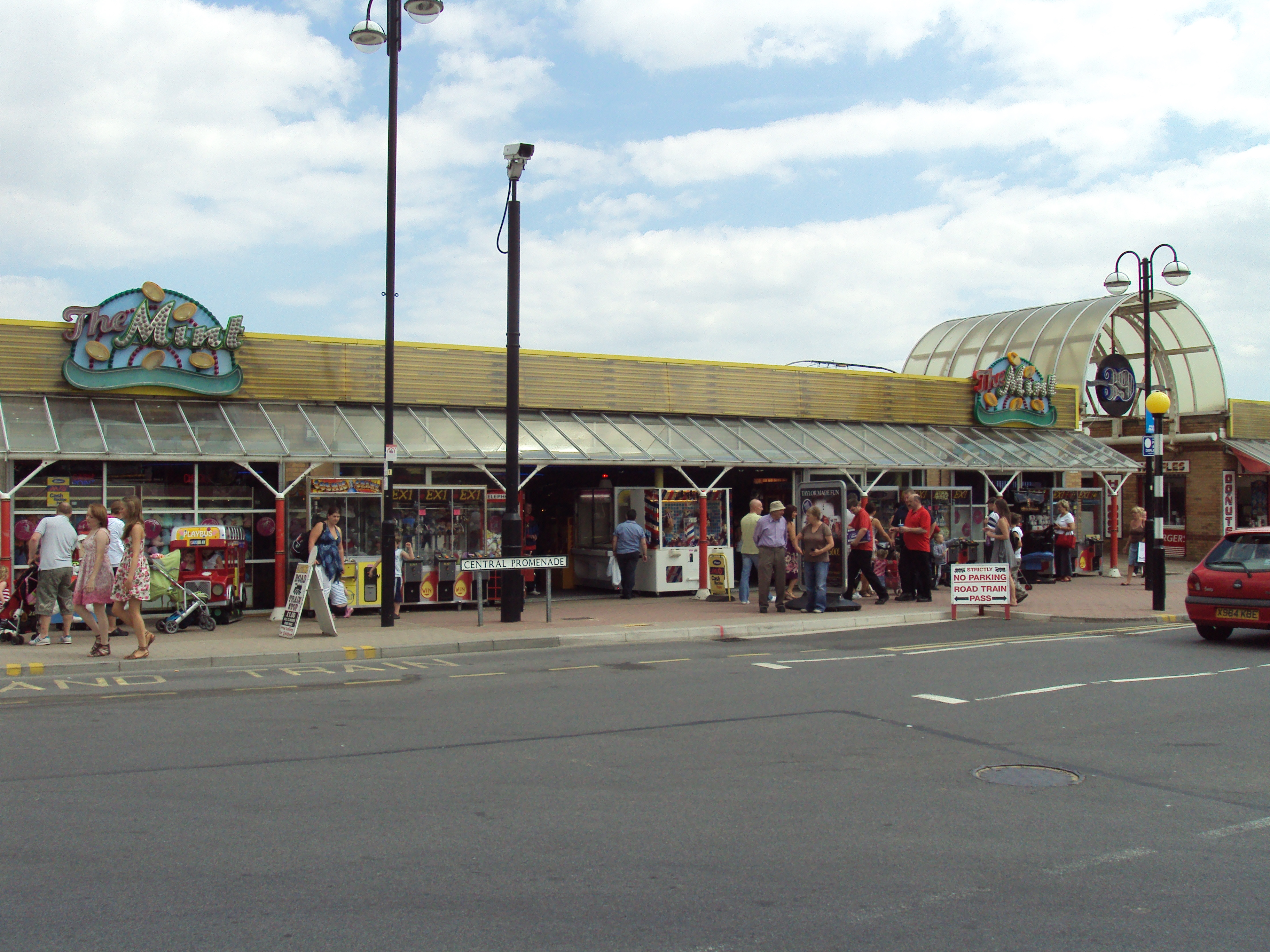 Frontage of Cleethorpes pier, Lincolnshire, England.